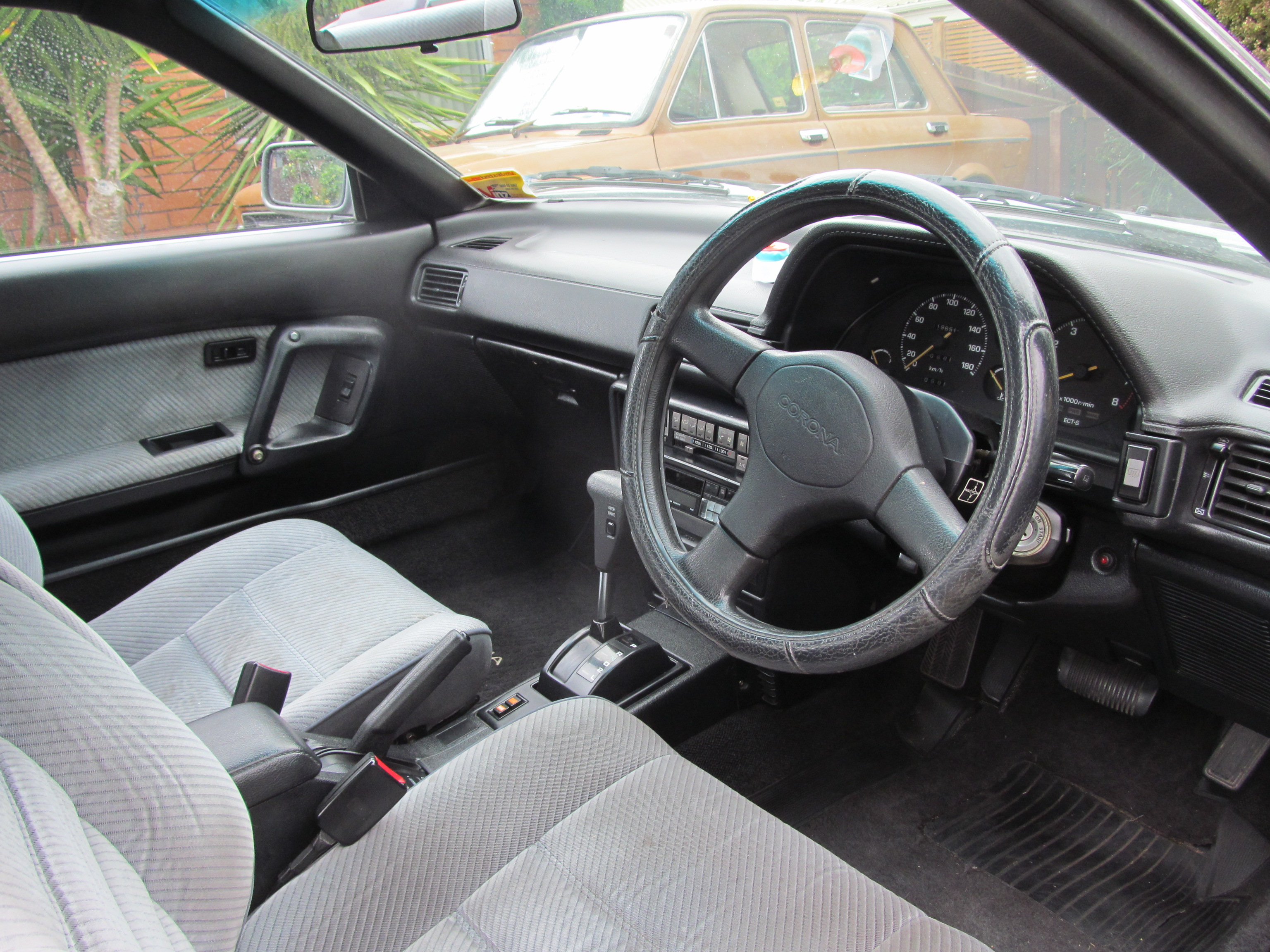 The seats are very comfortable, once you've managed to get yourself into it (with the exception of a family member's Toyota Trueno, it's possibly the lowest car I've ever been in.) It has matching Corona floor mats for every seat and even came with the original Toyota toolkit in the boot (much like the Fiat.) It's a 4-speed automatic with overdrive and PWR-ECT-S and MANU modes. PWR-ECT-S holds the gears longer which is designed to make overtaking easier (yet to try this however.) It has an Alpine radio and air con, both of which work.